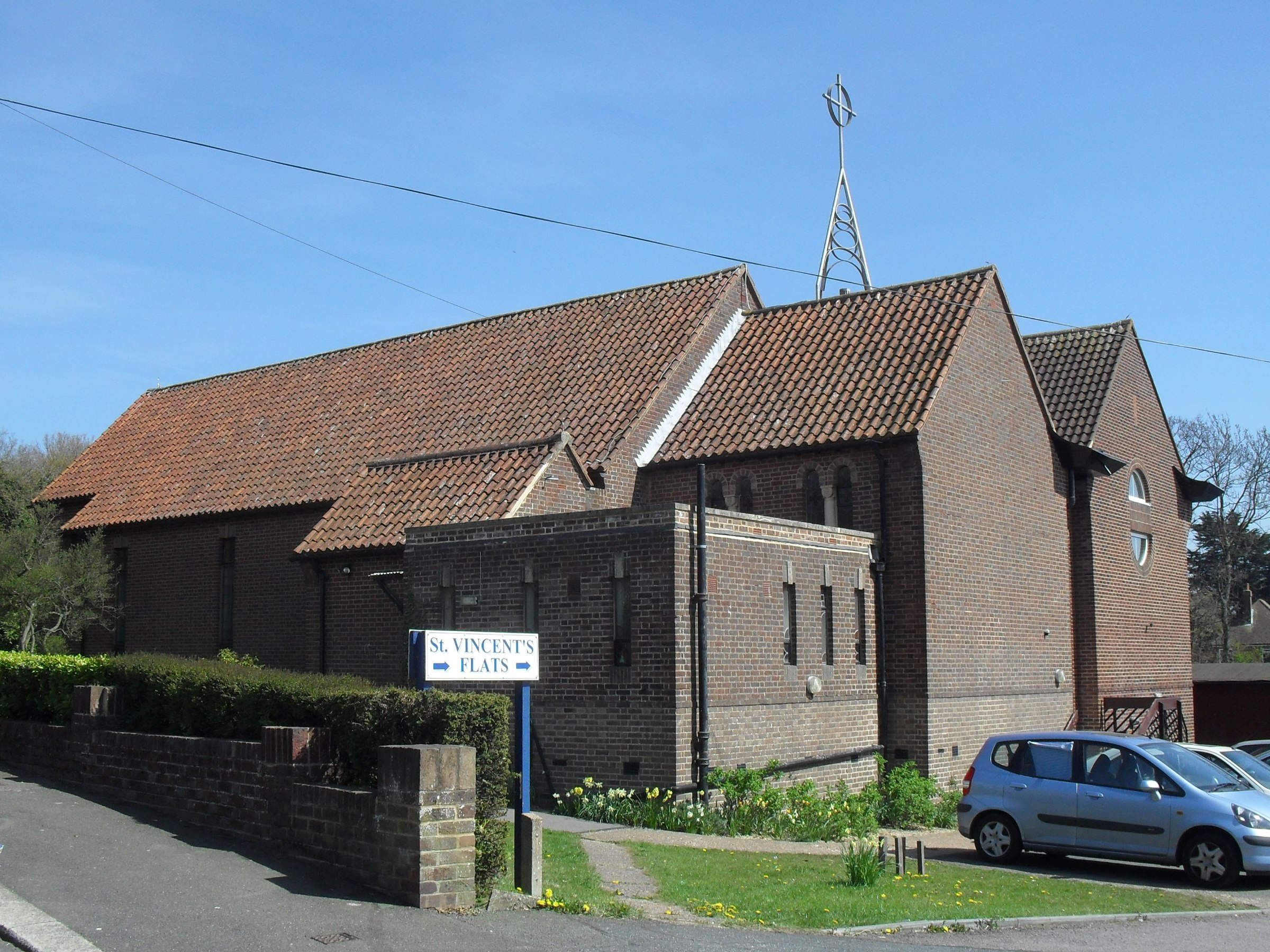 Roman Catholic church of the Holy Redeemer, Upper Church Road, Hollington, Hastings, East Sussex, England